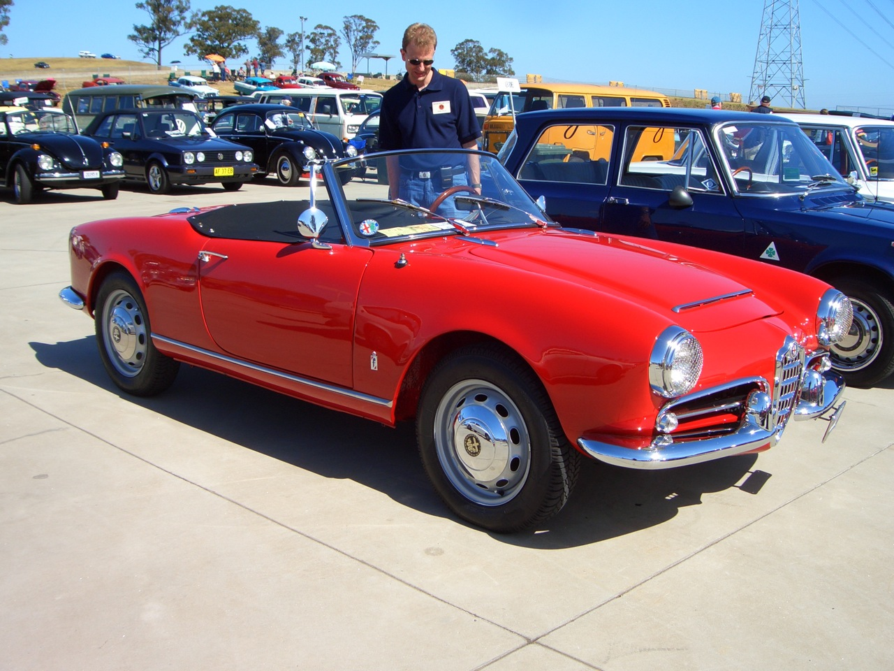 2005 Shannon's Eastern Creek Classic Car Show, August 28, 2005